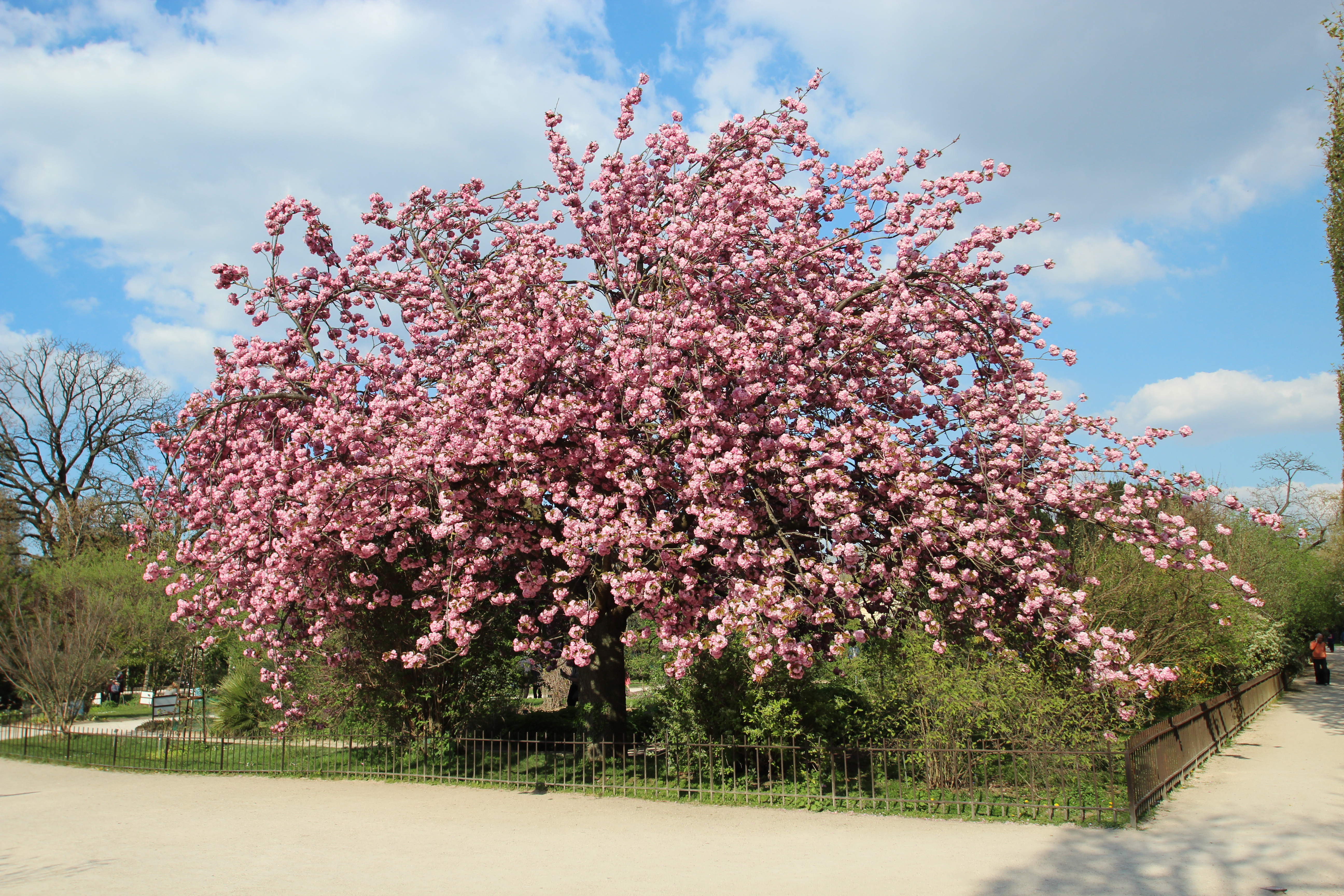 Spring in the Jardin des Plantes (garden of plants in french) in Paris, France. Object location48° 50′ 35.52″ N, 2° 21′ 38.88″ E